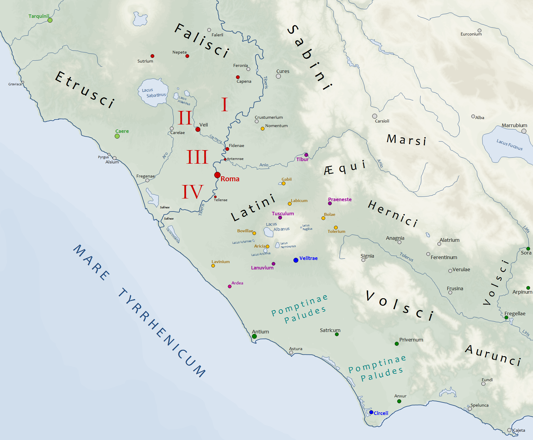 Obsolete map. See File:Carte GuerresRomanoVolsques 389avJC.png.